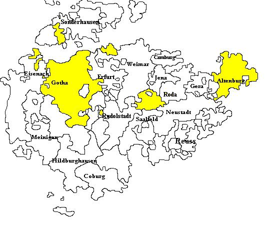 Location of the Duchy of Saxe-Gotha-Altenburg within Thuringia